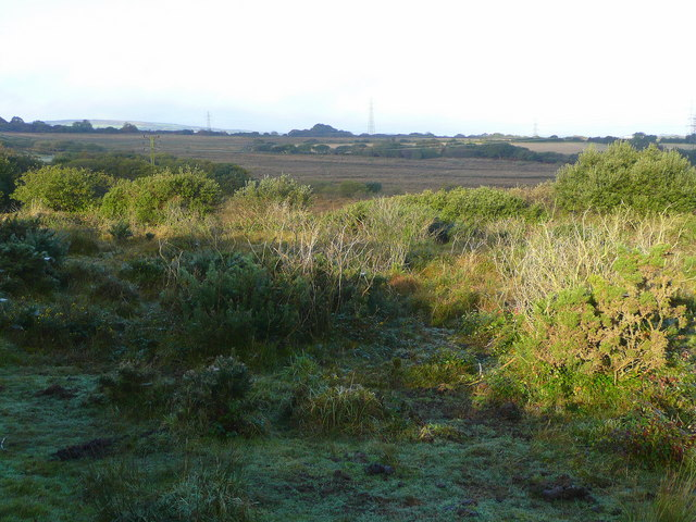 Retire Common Low moorland typical of this part of central Cornwall.